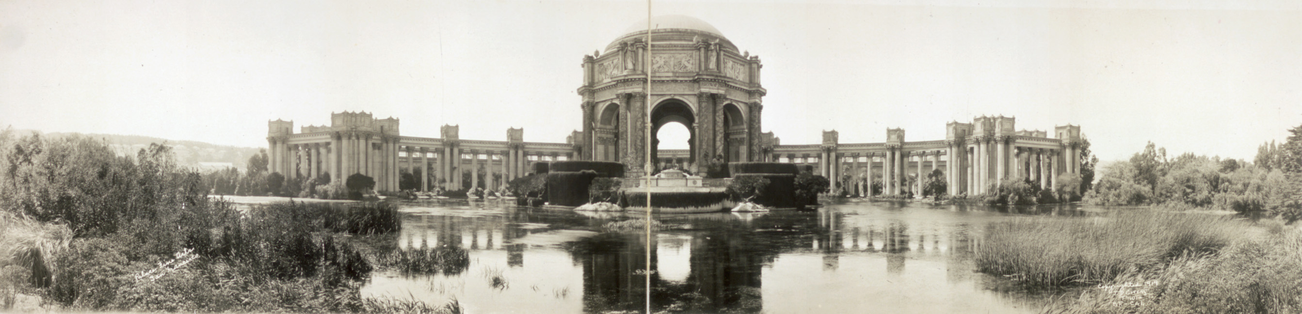 The Palace Fine Arts, San Francisco, CA.